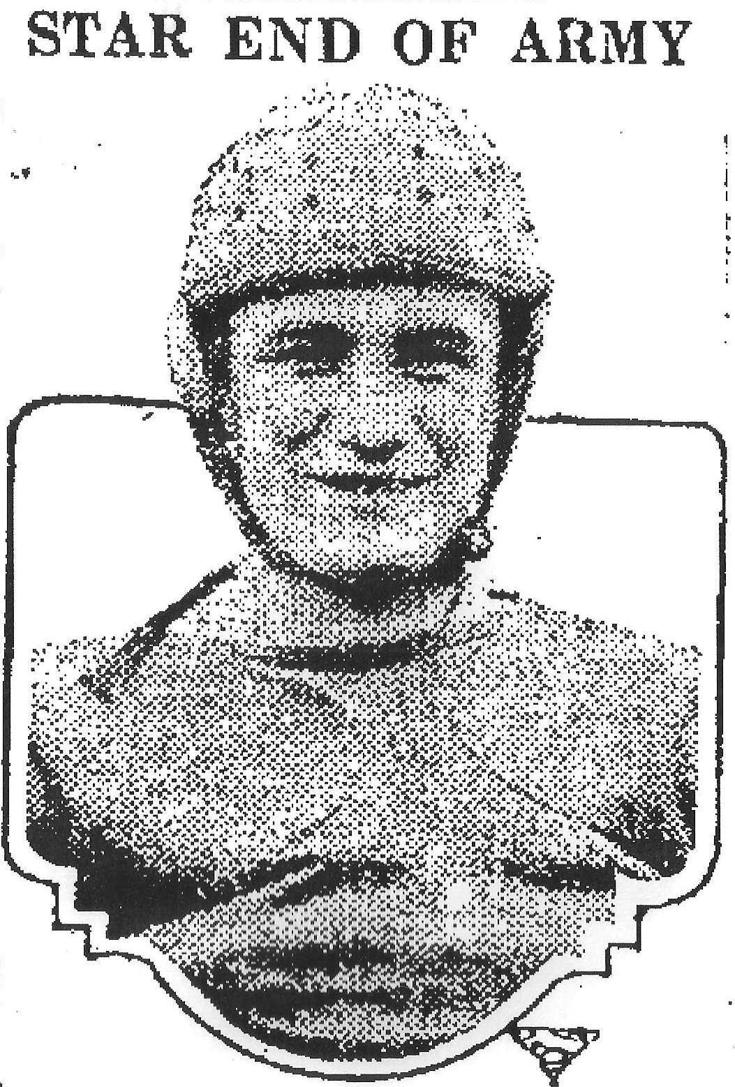 Photograph of Louis A. Merrilat